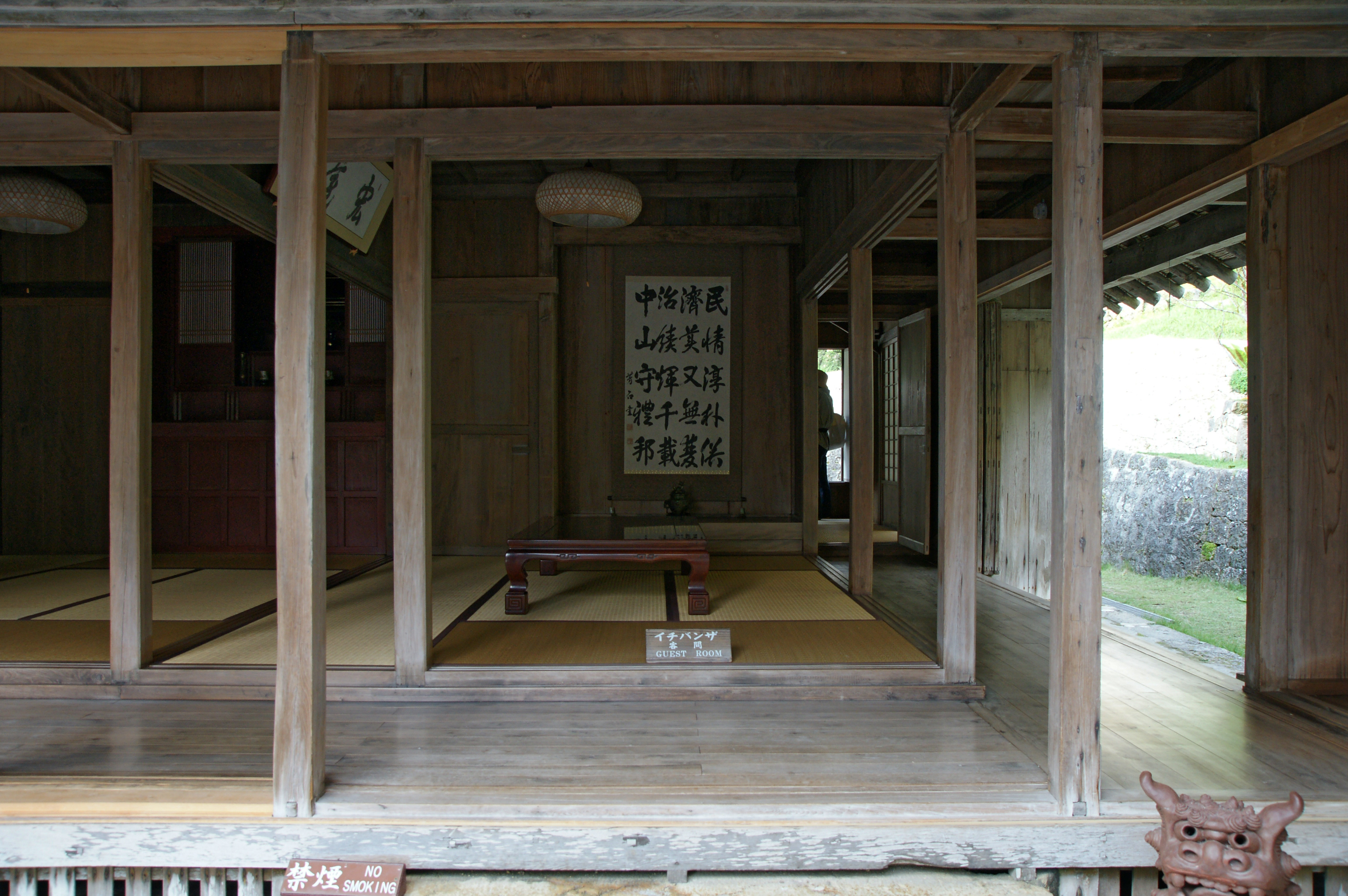 Nakamura House in Kitanakagusuku, Okinawa prefecture, Japan.